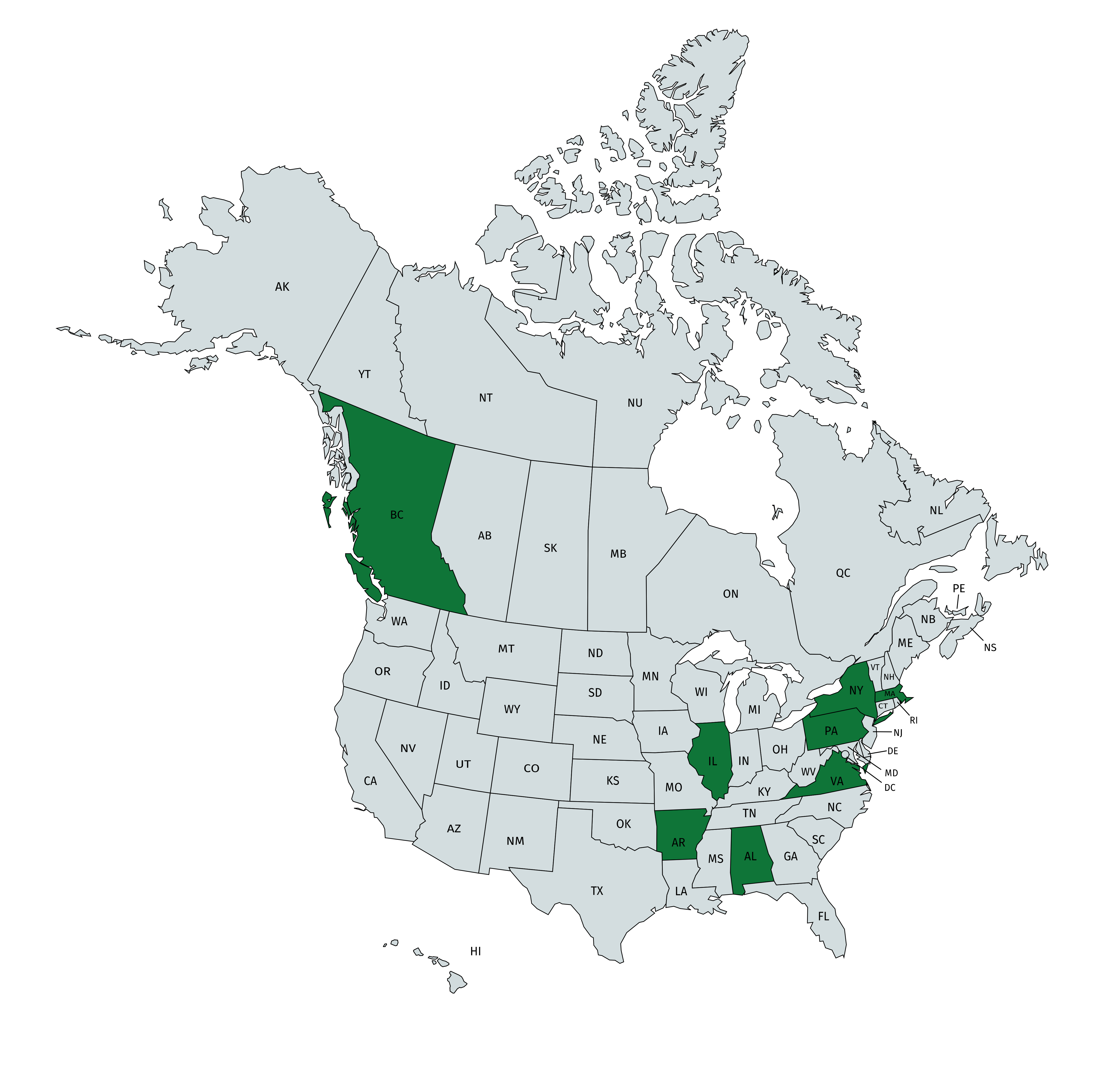 Map showing states represented at the 1953 Little League World Series, which was held from August 25 to August 28 in Williamsport, Pennsylvania.